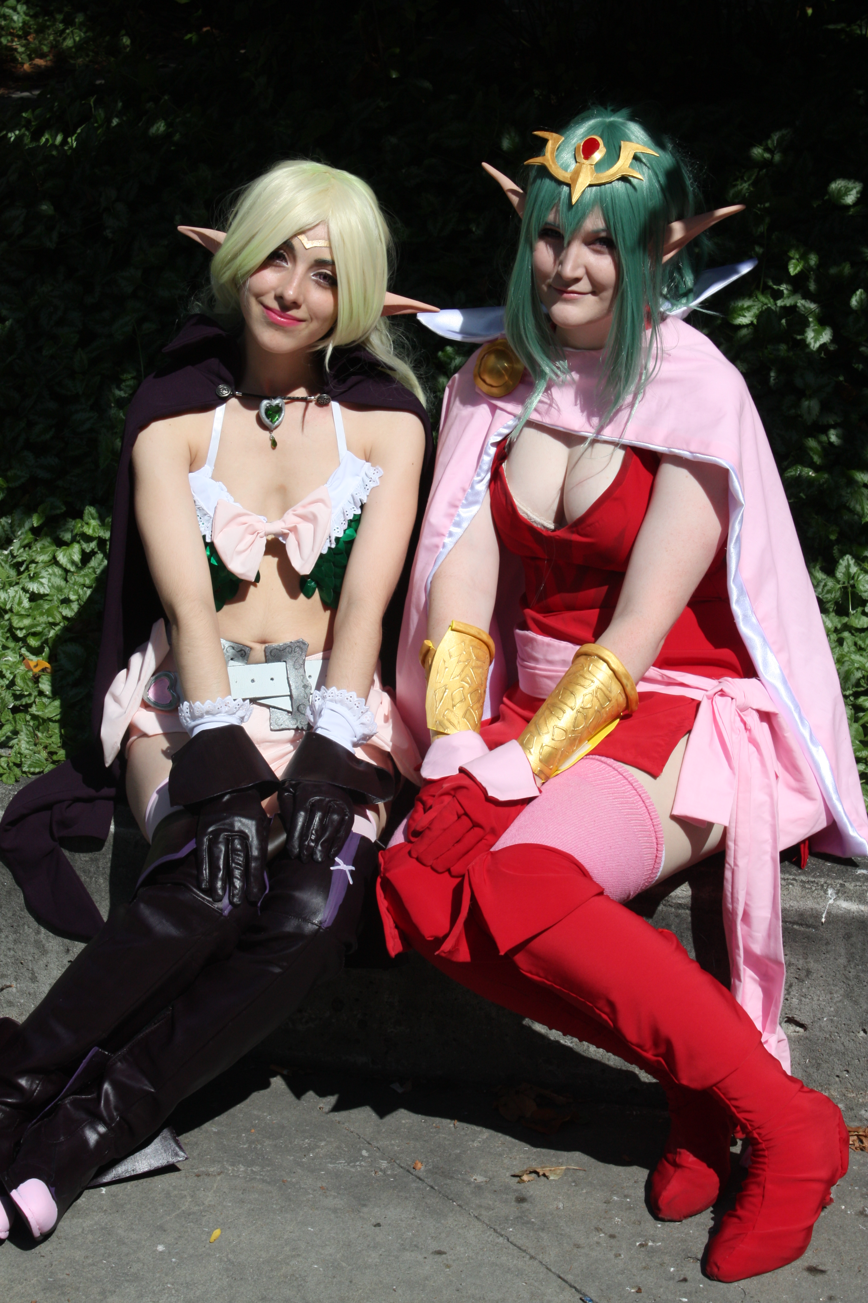 Otakuthon 2014: Nowi and Tiki